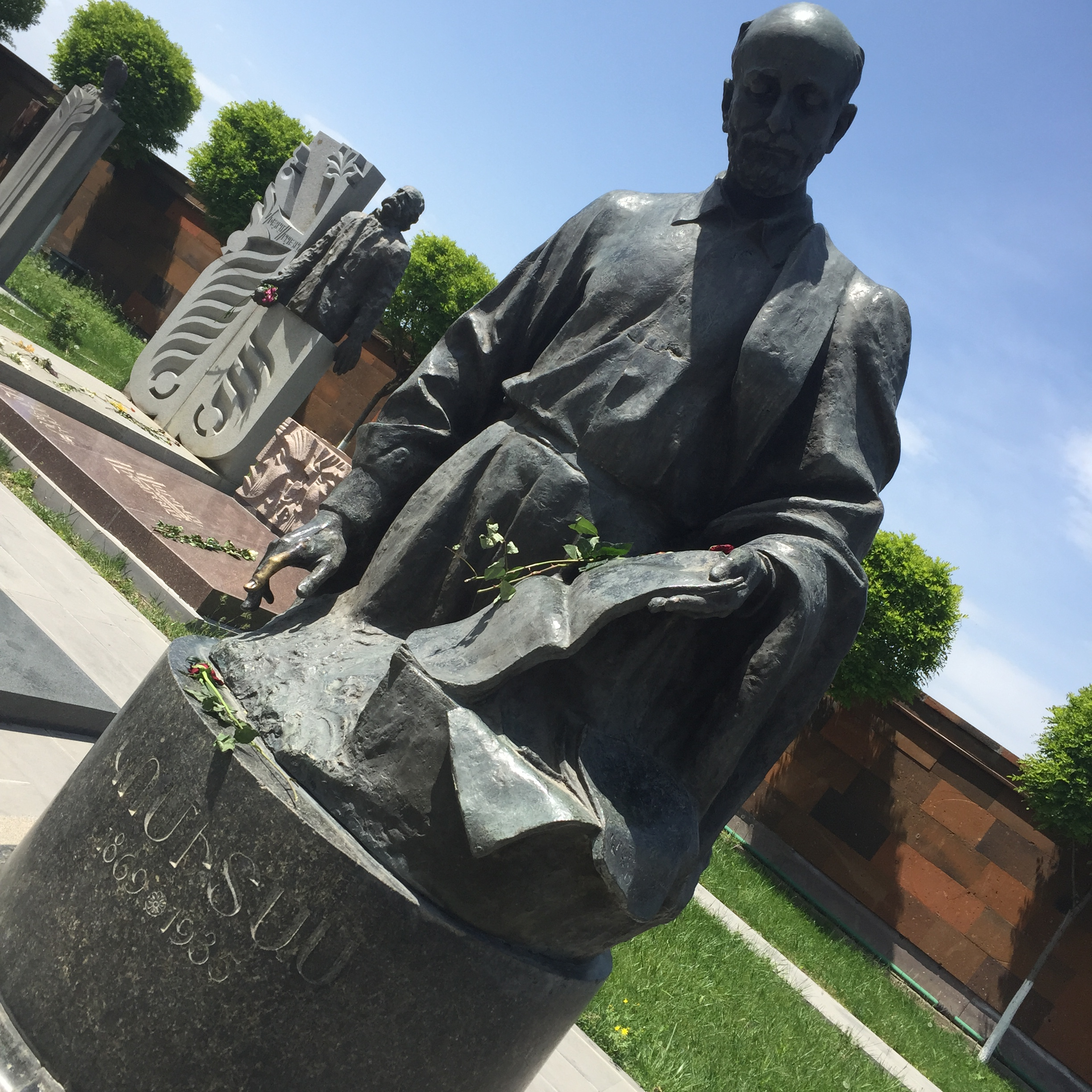 Komitas' tombstone in Yerevan's Komitas Pantheon (Photo: Rupen Janbazian)